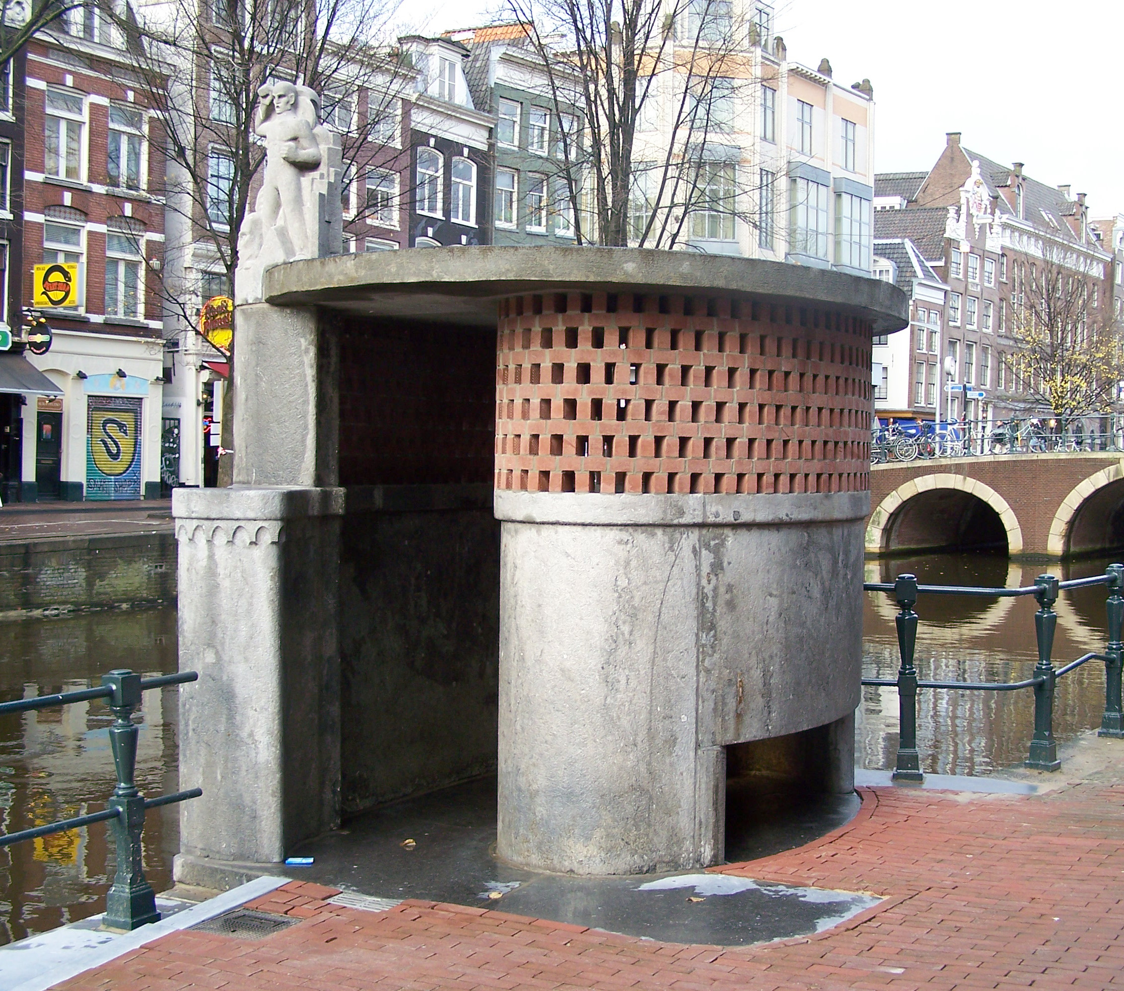 Public toilet at the Ouwezijds Voorburgwal in front of the former Stadhuis (Now Hotel The Grand). The toilet was designed by Allard Remco Hulshoff in 1926. The sculpture on top was designed by Hildo Krop and represents a choir. 2″ N, 4° 53′ 46.47″ E